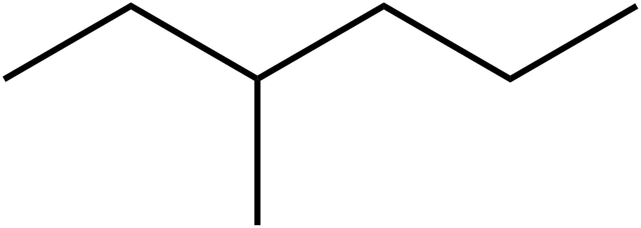 Chemical structure of 3-methylhexane